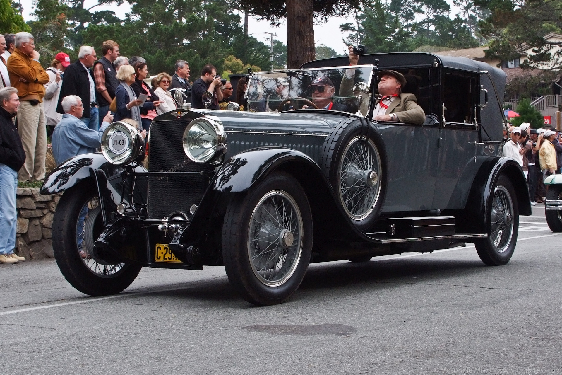 1925 Hispano-Suiza type H6.B landaulet by Kellner at Monterey_Historics_2011-10-137